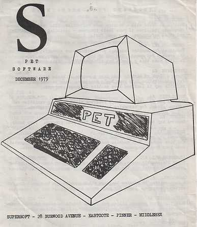 Cover of oldest surviving Supersoft catalogue of software for the Commodore PET - dated December 1979